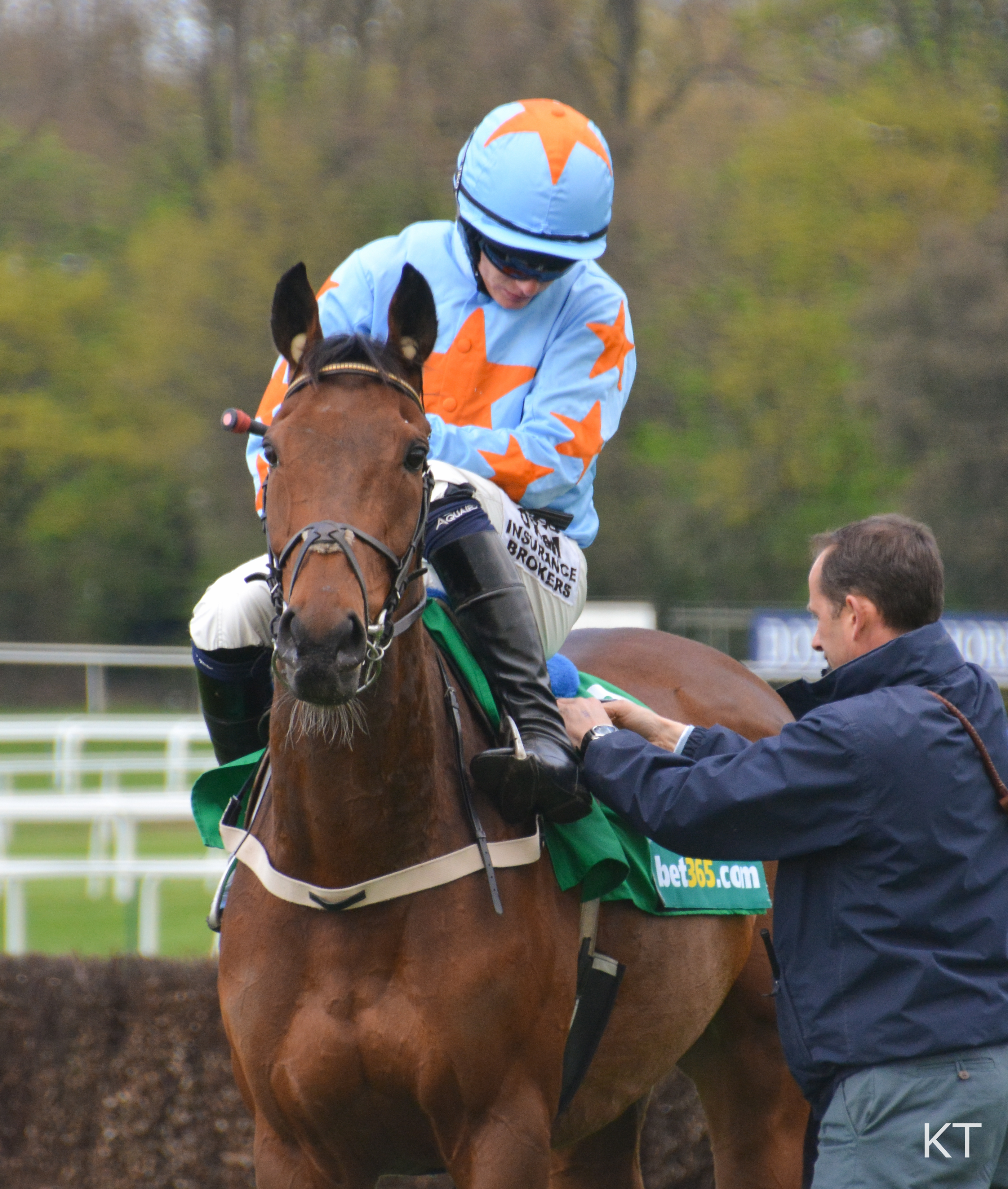 Un de Sceaux